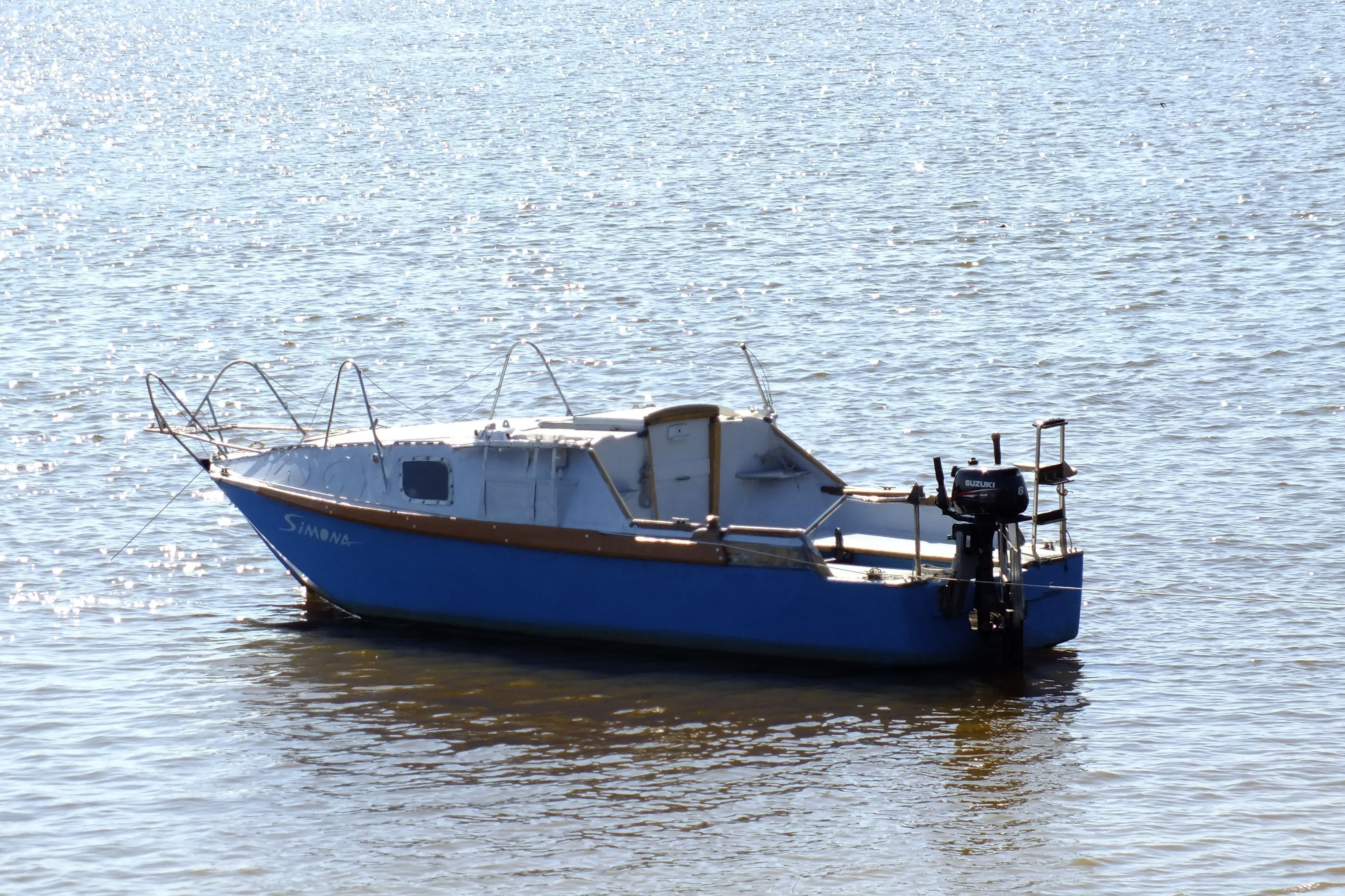 Yachts in Russia